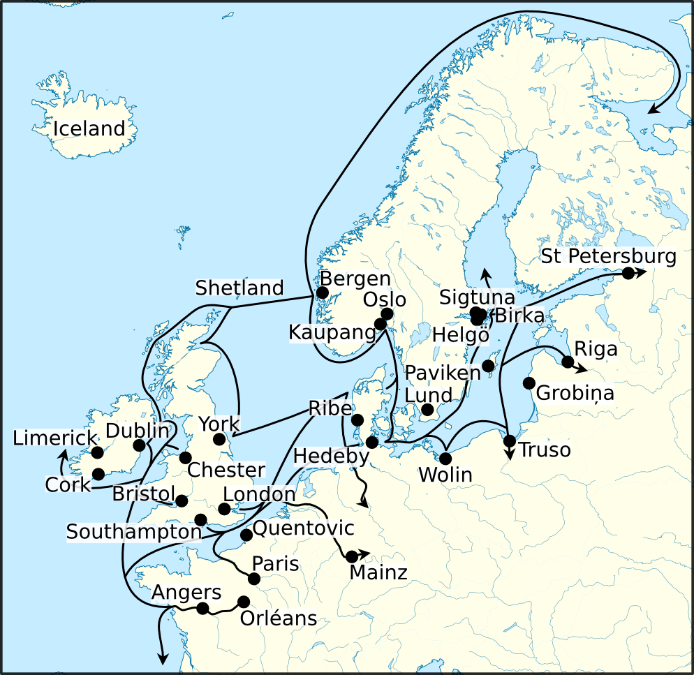 Viking Age trade routes in north-west Europe. The map is based off figure 12 in: Richards, JD (2013) [1991] Viking Age England, The History Press ISBN: 978 0 7509 5252 1.